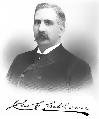 John Caldwell Calhoun II (1843-1918) portrait